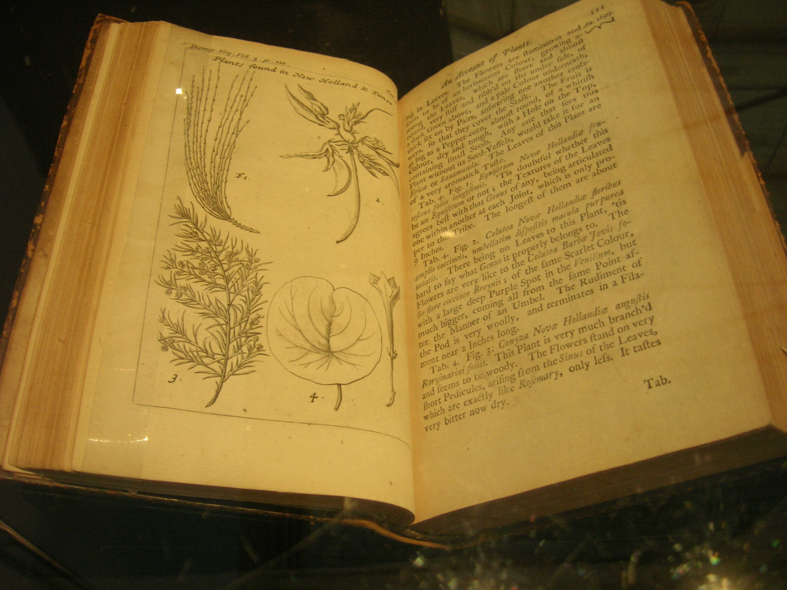 Colutea Novae Hollandiae William Dampier A voyage to New Holland, &c. In the Year 1699, J knapton, London, 1729 edition (Table 4 figure 2) Courtesy Barr Smith Library The first illustration of a Sturt pea was published in 1703 in William Dampier's Voyage to New Holland. The illustration is most likely to be of the specimen collected by Dampier in 1699. It was nearly 150 years later before another illustration was published. Botanic Gardens of Adelaide Here is the text of Voyage to New Holland from Project Gutenberg Table 4 Figure 2. Colutea Novae Hollandiae floribus amplis coccineis, umbellatim dispositis macula purpurea notatis. There being no leaves to this plant, it is hard to say what genus it properly belongs to. The flowers are very like to the Colutea Barbae Jovis folio flore coccineo Breynii; of the same scarlet colour, with a large deep purple spot in the vexillum, but much bigger, coming all from the same point after the manner of an umbel. The rudiment of the pod is very woolly, and terminates in a filament near 2 inches long. i040707 297